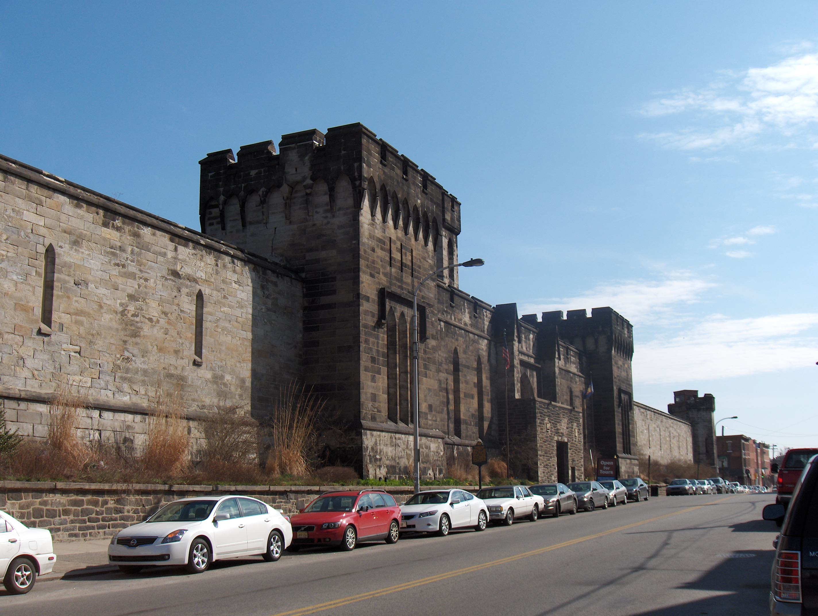 Eastern State Penitentiary is a former Pennsylvania state prison, on Fairmount Avenue between Corinthian Avenue and North 22nd Street in the Fairmount neighborhood of Philadelphia, PA, 19130.It opened in 1829, and closed in 1971, and is a U.S. National Historic Landmark. South wall, looking east.